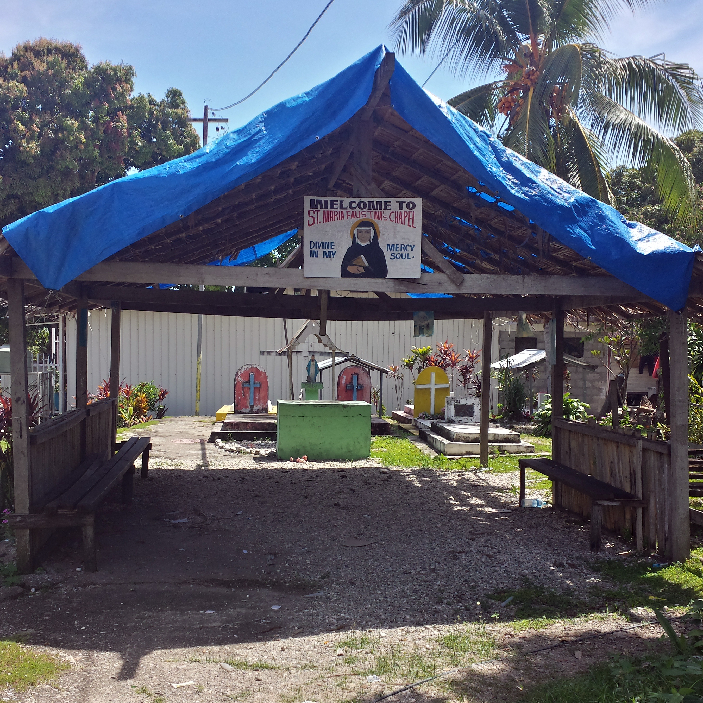 Photo of St Maria Faus Tina Chapel. Facing North. West of Honiara